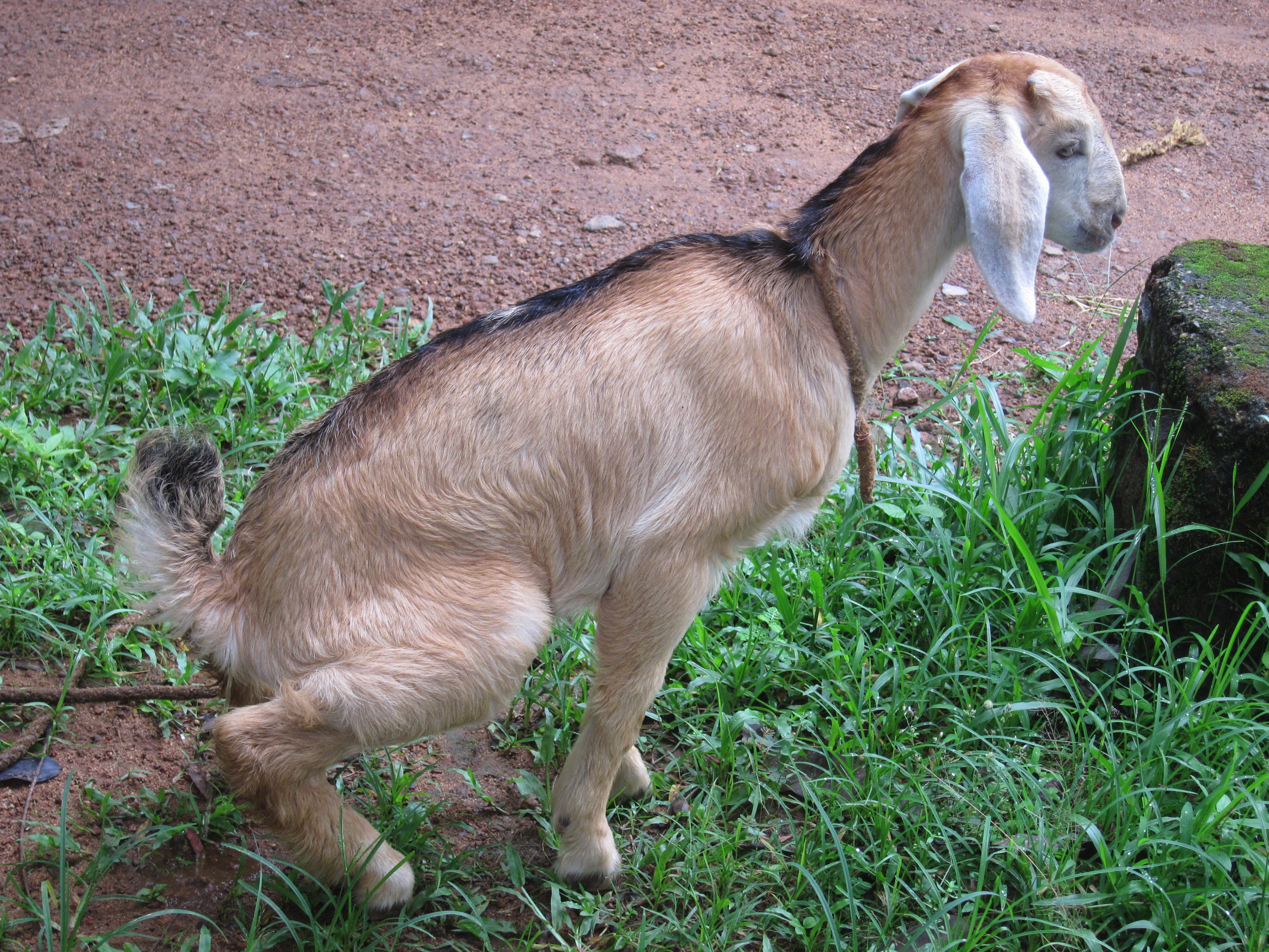 Goat - ആട്